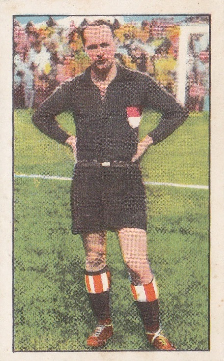 Dutch football player Hans van Kesteren (1931)